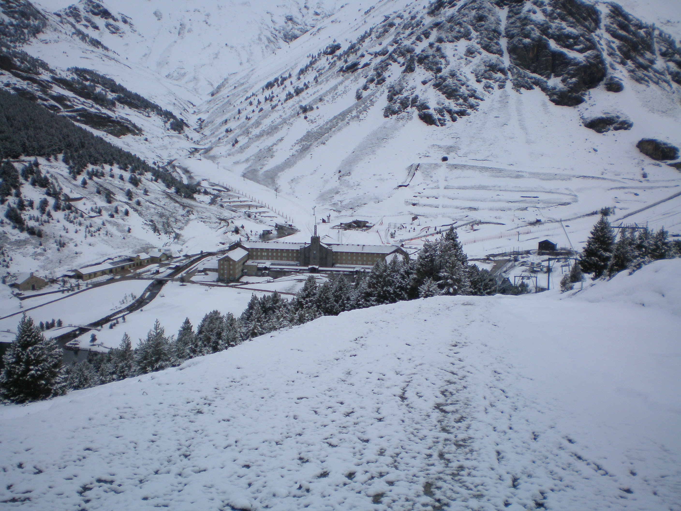 Vall de Núria's ski resort image.